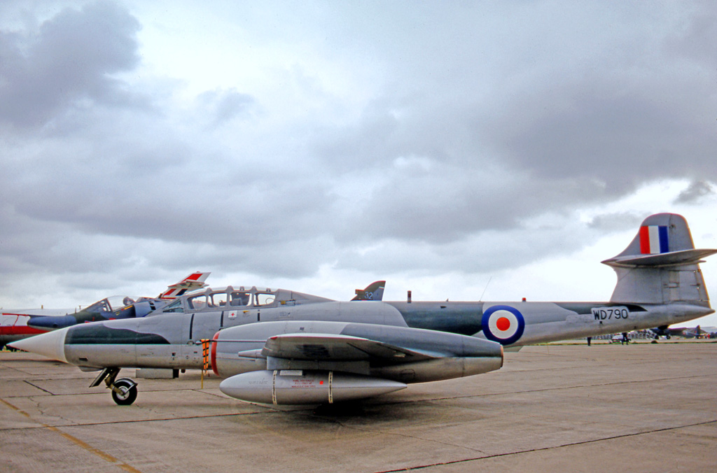 Gloster Meteor NF.11 WD790, which was modified with the installation of a TSR.2 nosecone. It was used by the Royal Radar Establishment for trial work in 1976